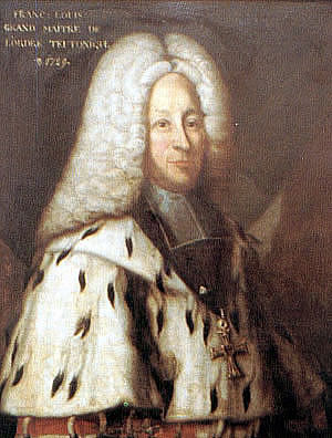 Count Palatine Francis Louis of Neuburg (1664-1732)